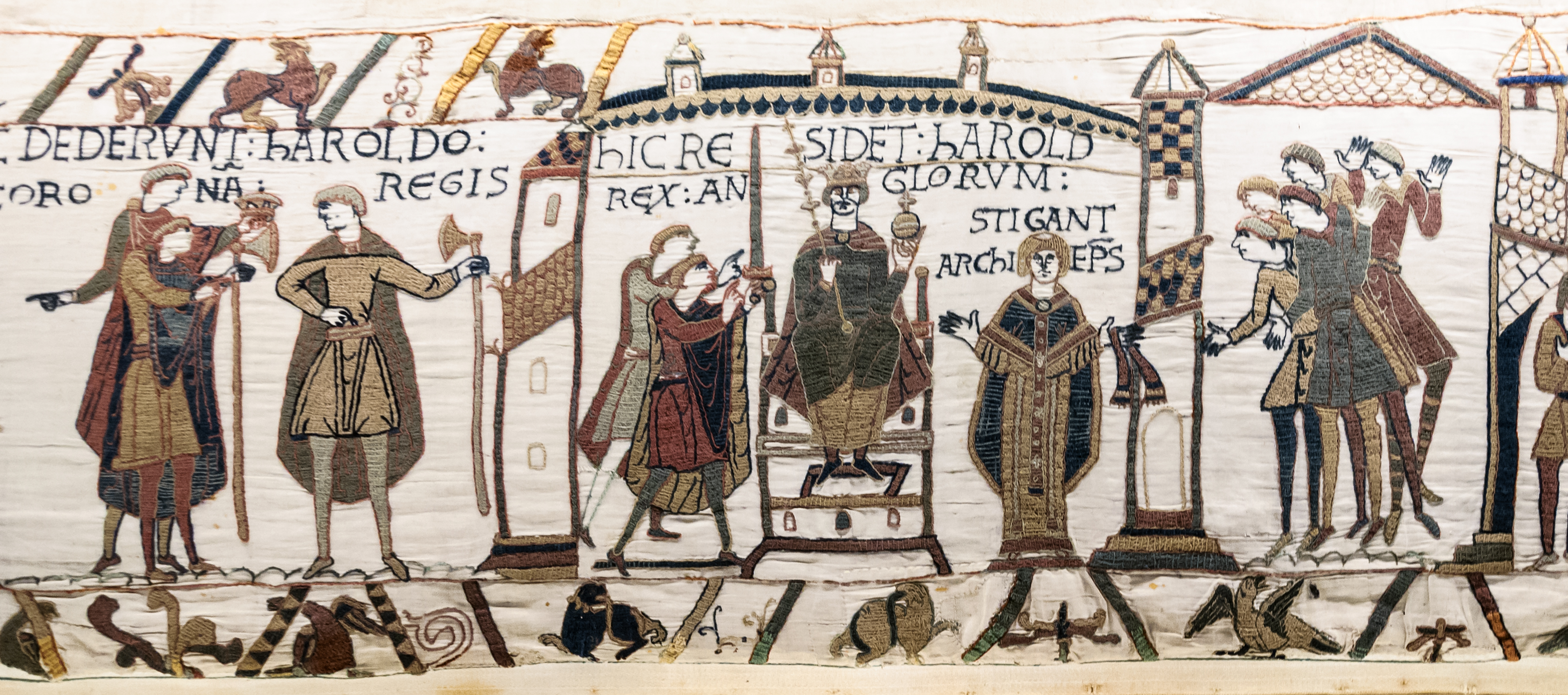 Bayeux Tapestry - Scenes 29-30-31: the coronation of Harold II of England. He receives orb and sceptre. On his left stands Archbishop Stigand. Titulus: HIC DEDERUNT HAROLDO CORONA[M] REGIS (Here they gave the king's crown to Harold) - HIC RESIDET HAROLD REX ANGLORUM (Here sits Harold King of the English) - STIGANT ARCHIEP[ISCOPU]S (Archbishop Stigand)